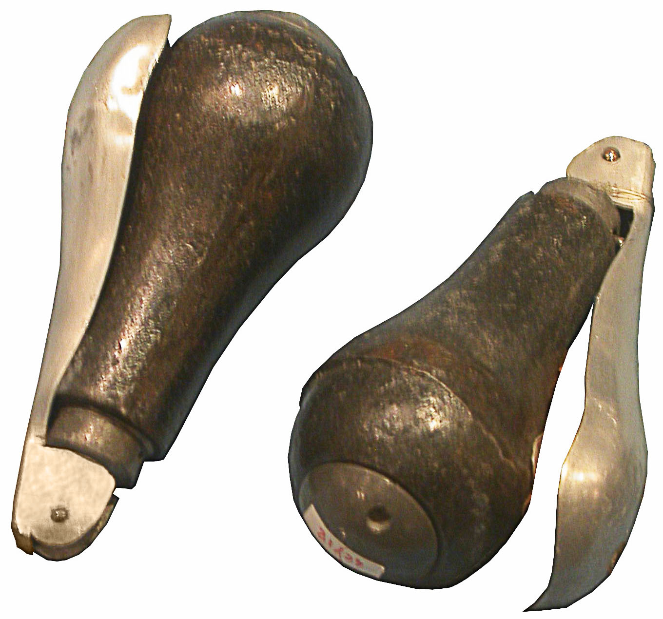 Percussion scoop grenade WWI (in coll. Mémorial de Verdun).